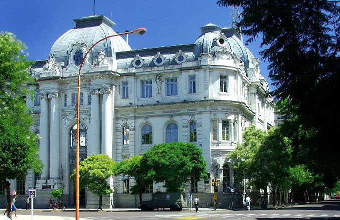 Banco Nación (National Bank), Bahía Blanca, Buenos Aires Province, Argentina. Designed by Juan Ochoa, it was built between 1917 and 1921.